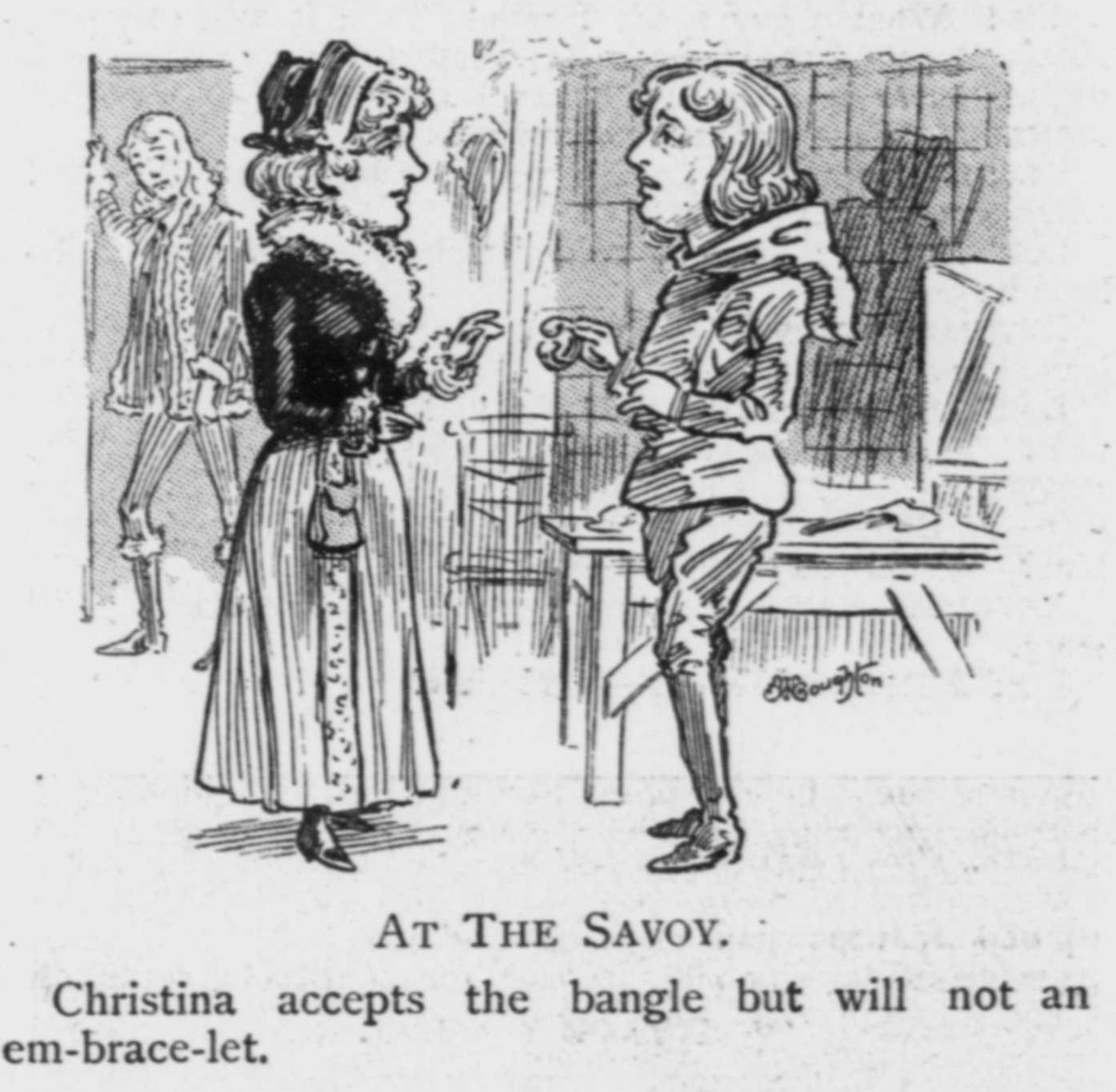 Drawing of 1901 production of Ib and Little Christina.